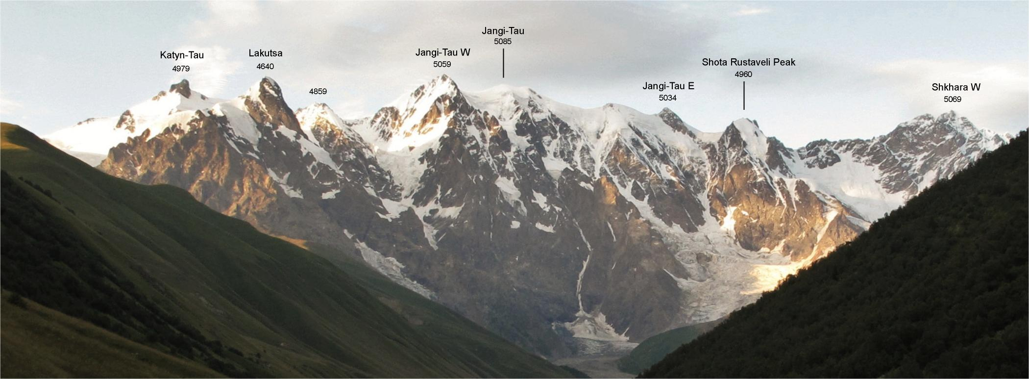 Bezengi Ridge between Katyntau and Shkhara Mountains as viewed from south side (Chalde Valley). Names from Naumov, A.F. (1985) Gory Svanetii (Mountains of Svanetina). Names in accordance with , but sometimes differs from names on soviet military topographic maps. Heighs from